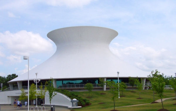 The James S. McDonnell Planetarium is located in Forest Park in St. Louis, Missouri. The James S. McDonnell Planetarium was built in en:1963 and operated by the city of St. Louis. In en:1983 it became part of the St. Louis Science Center, to which it is joined by an enclosed pedestrian bridge across Interstate 64, reopening in en:1985 after extensive remodelling. The planetarium features a Zeiss Planetarium Model IX projector capable of showing the locations of 9000 stars and the planets on an 80-foot (24 m) dome. In addition to the planetarium theater, the building is home to many displays on space sciences on two levels.[1] The shape of the building's unique roof is known mathematically as a hyperboloid of one sheet.